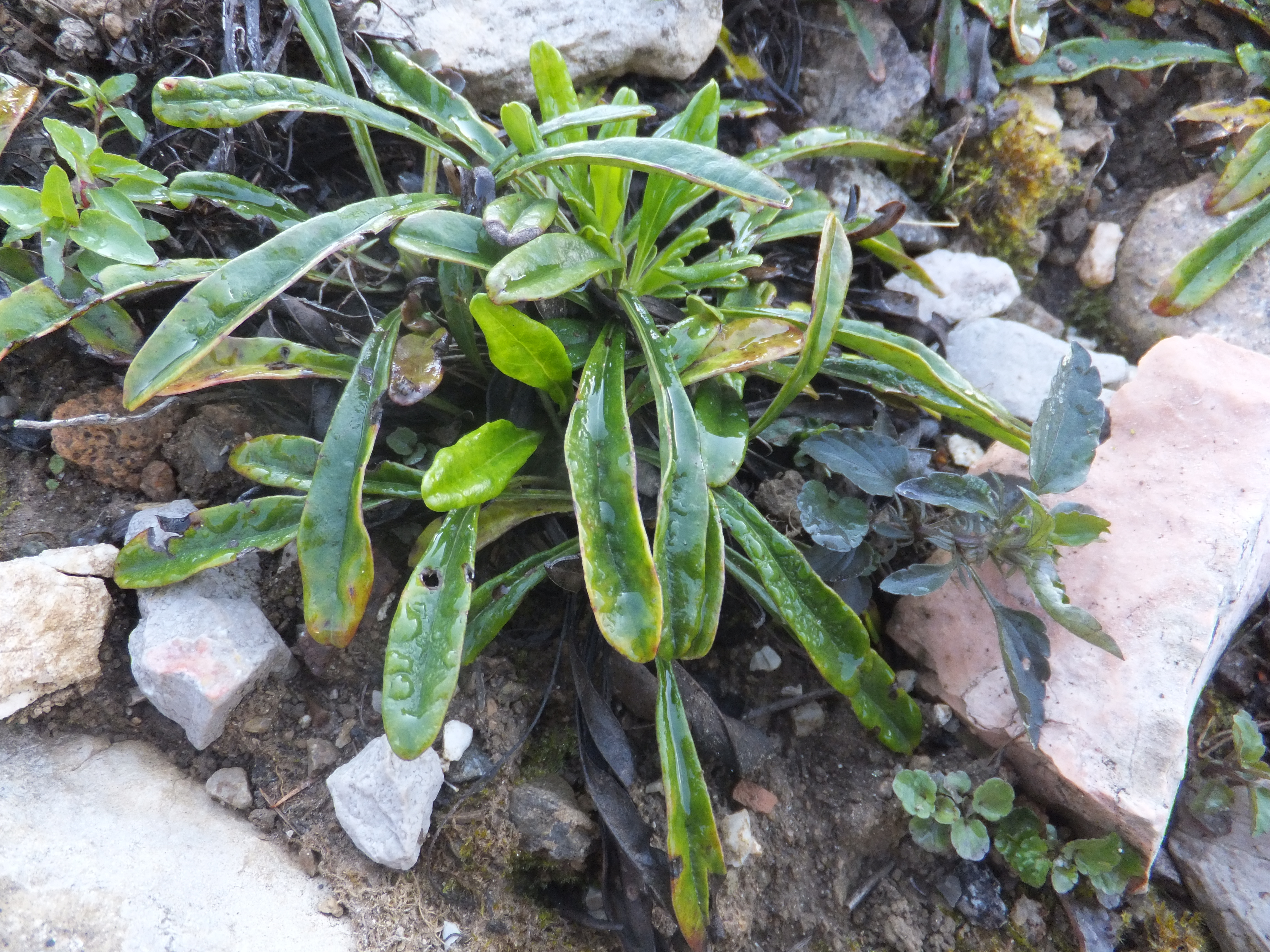 Globularia nudicaulis - Giardino Botanico Alpino Viote